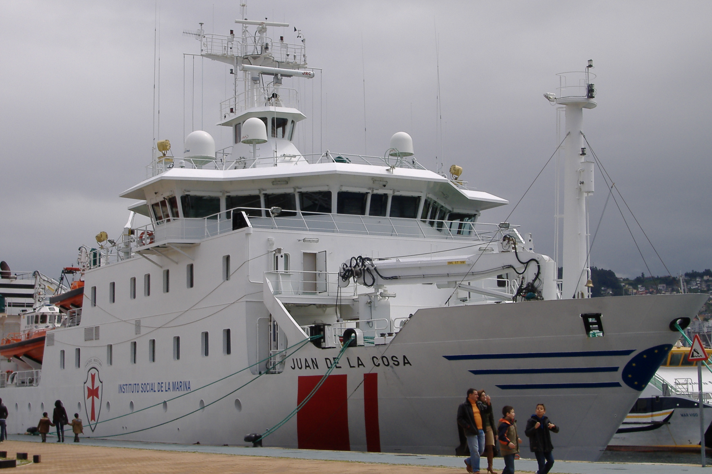 Hospital Ship Juan de la Cosa, property of the Social Marine Insitute (Insituto Social de la Marina, ISM), on May 1st., 2008, taken from the Ocean Liners pier, on the port of Vigo, by myself.